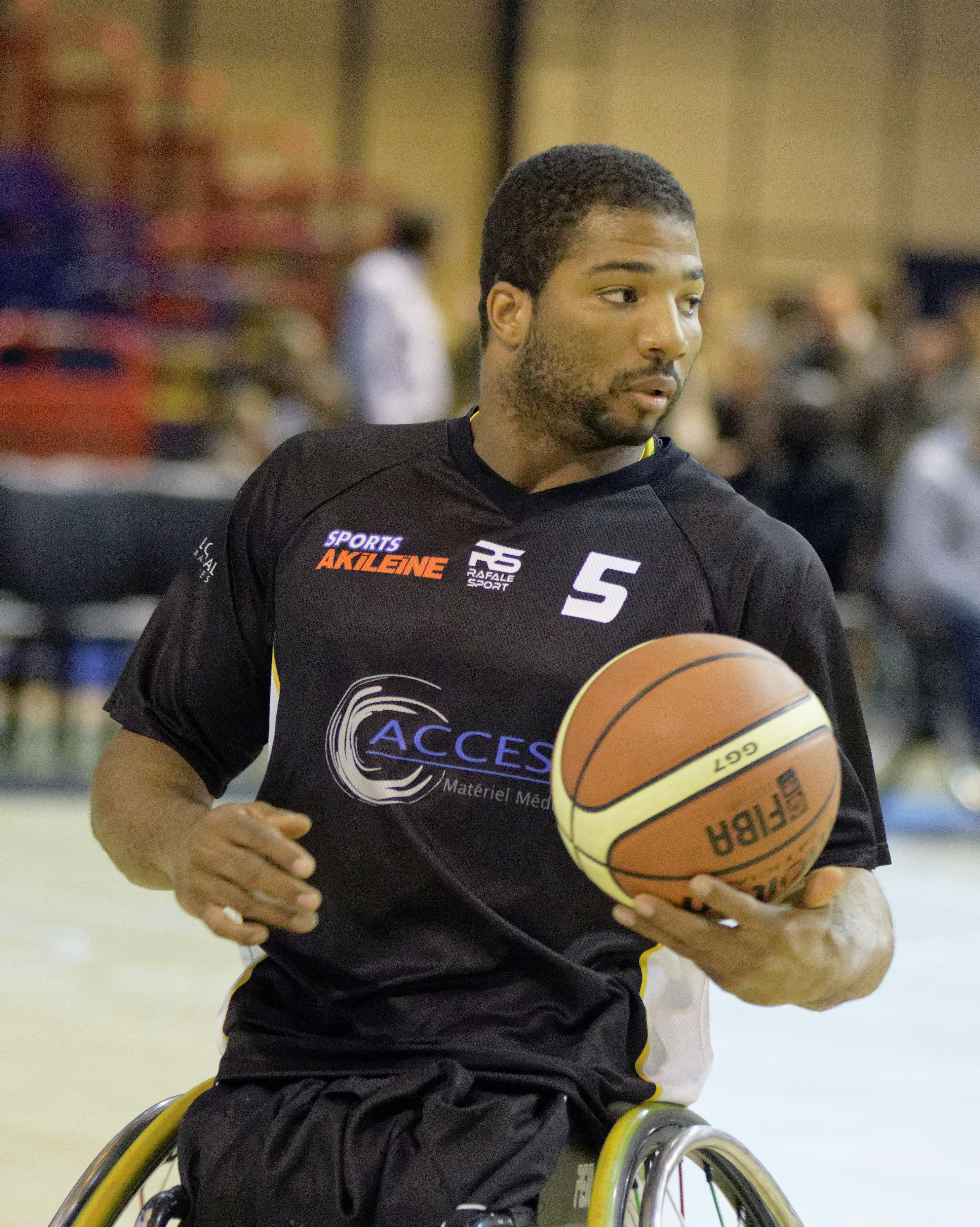 Final of the French Wheelchair Basketball Cup, CS Meaux vs Le Cannet, 1st May 2015.